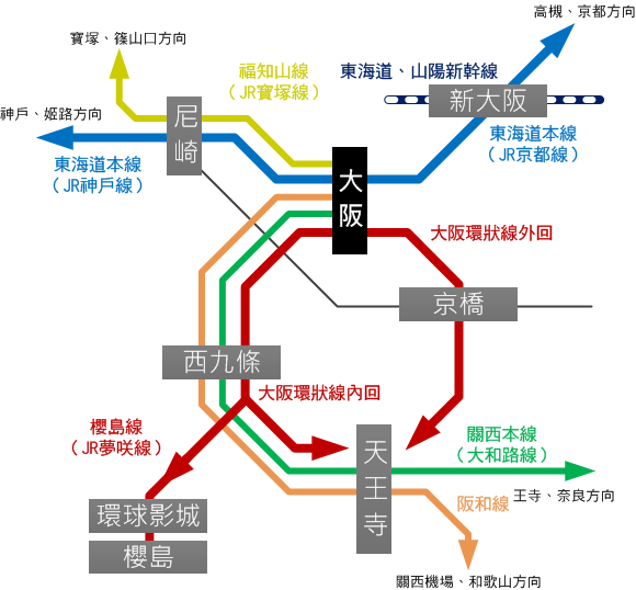 Railway lines from/to Osaka Station